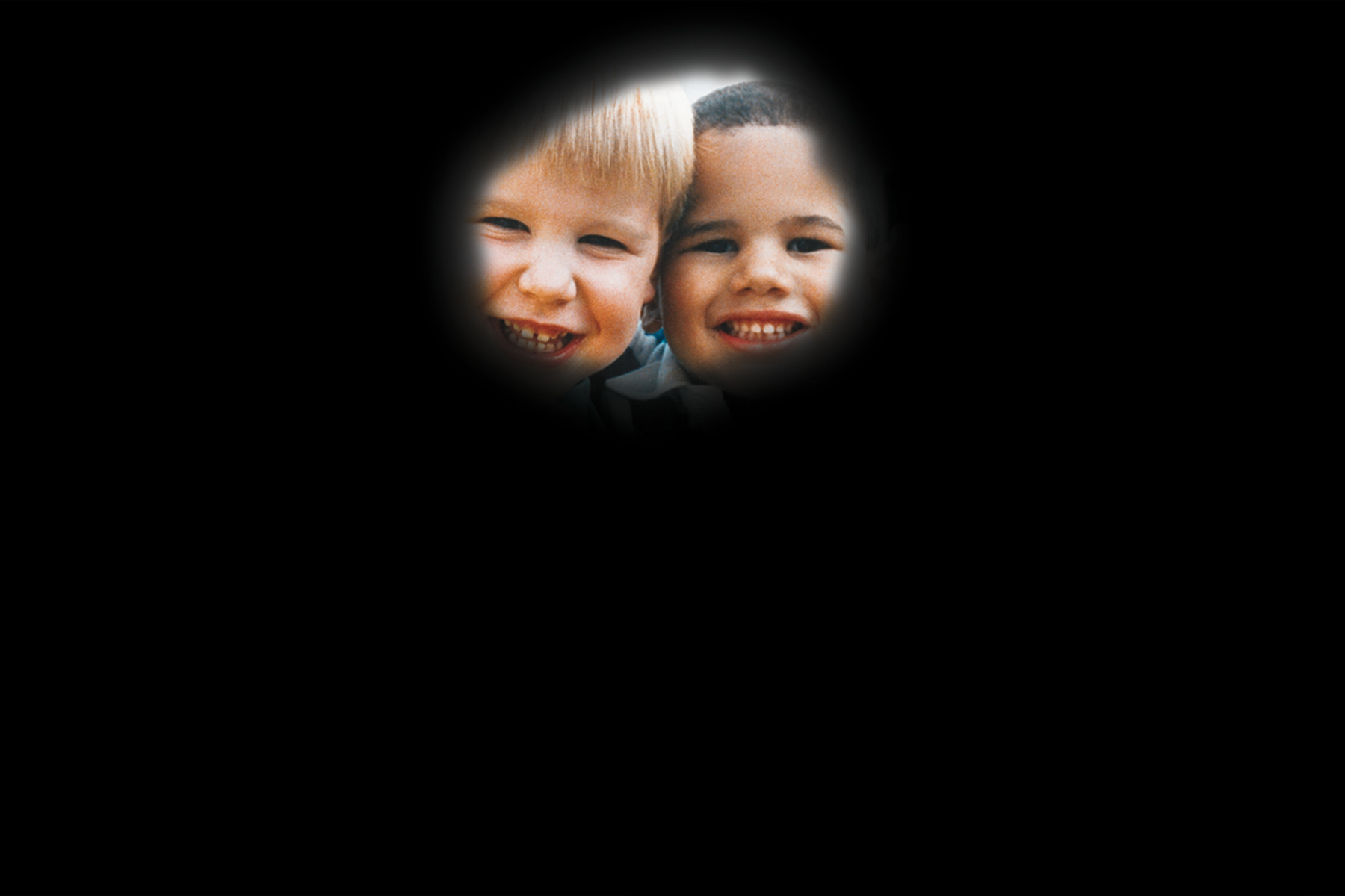 A scene as it might be viewed by a person with retinitis pigmentosa.